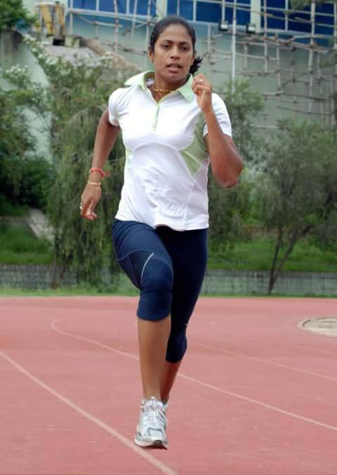 [practice]